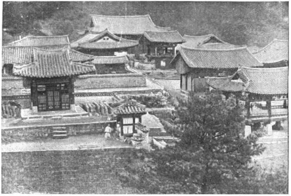 The Buddhist monastery of Yu-Chom-Sa